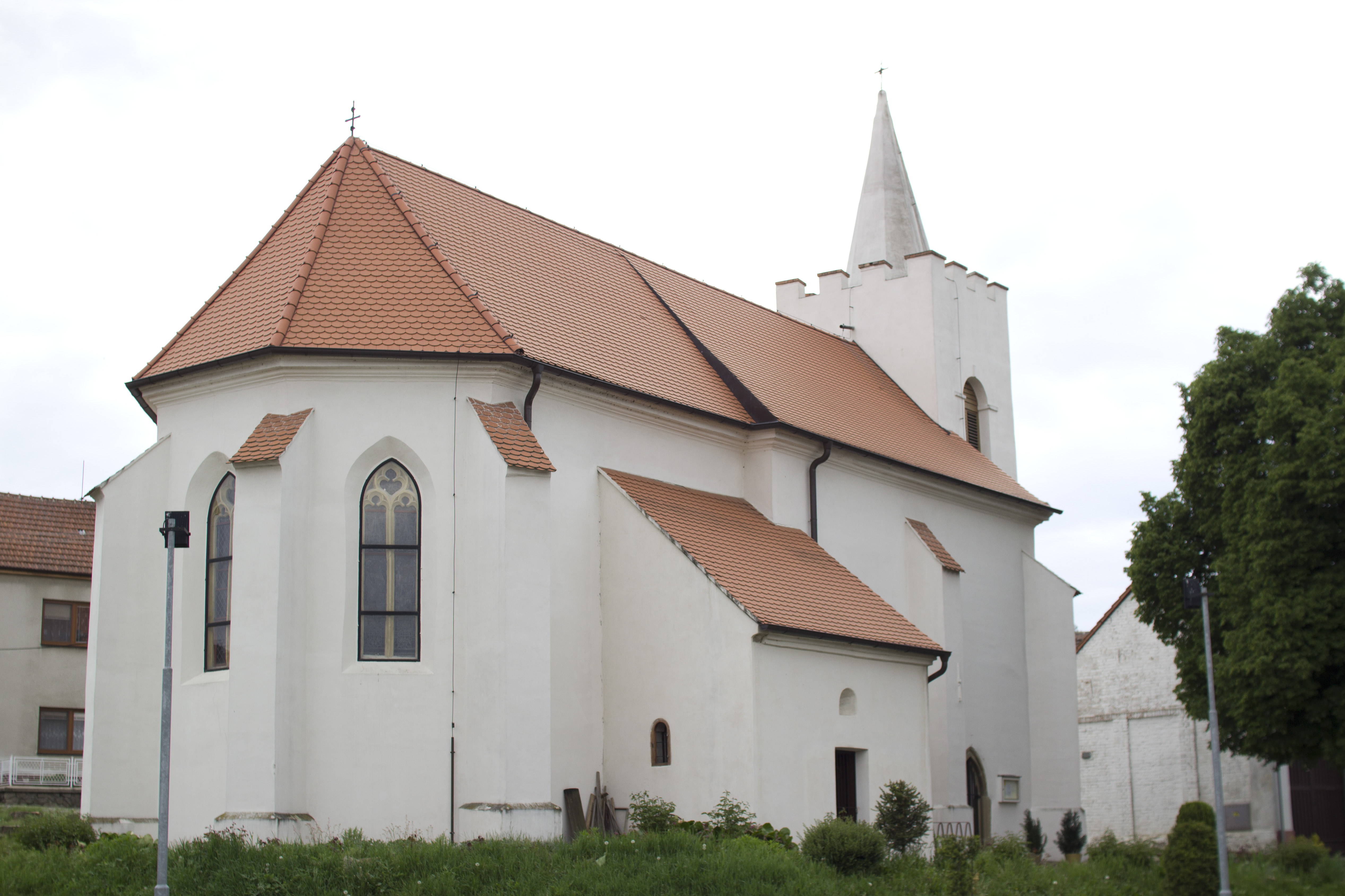 Church, Rakšice, Moravský Krumlov, Znojmo District, South Moravian Region, Czech Republic